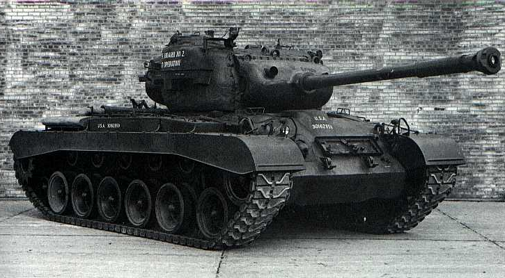 T40 (M46 prototype) serial number 4 at Fort Knox